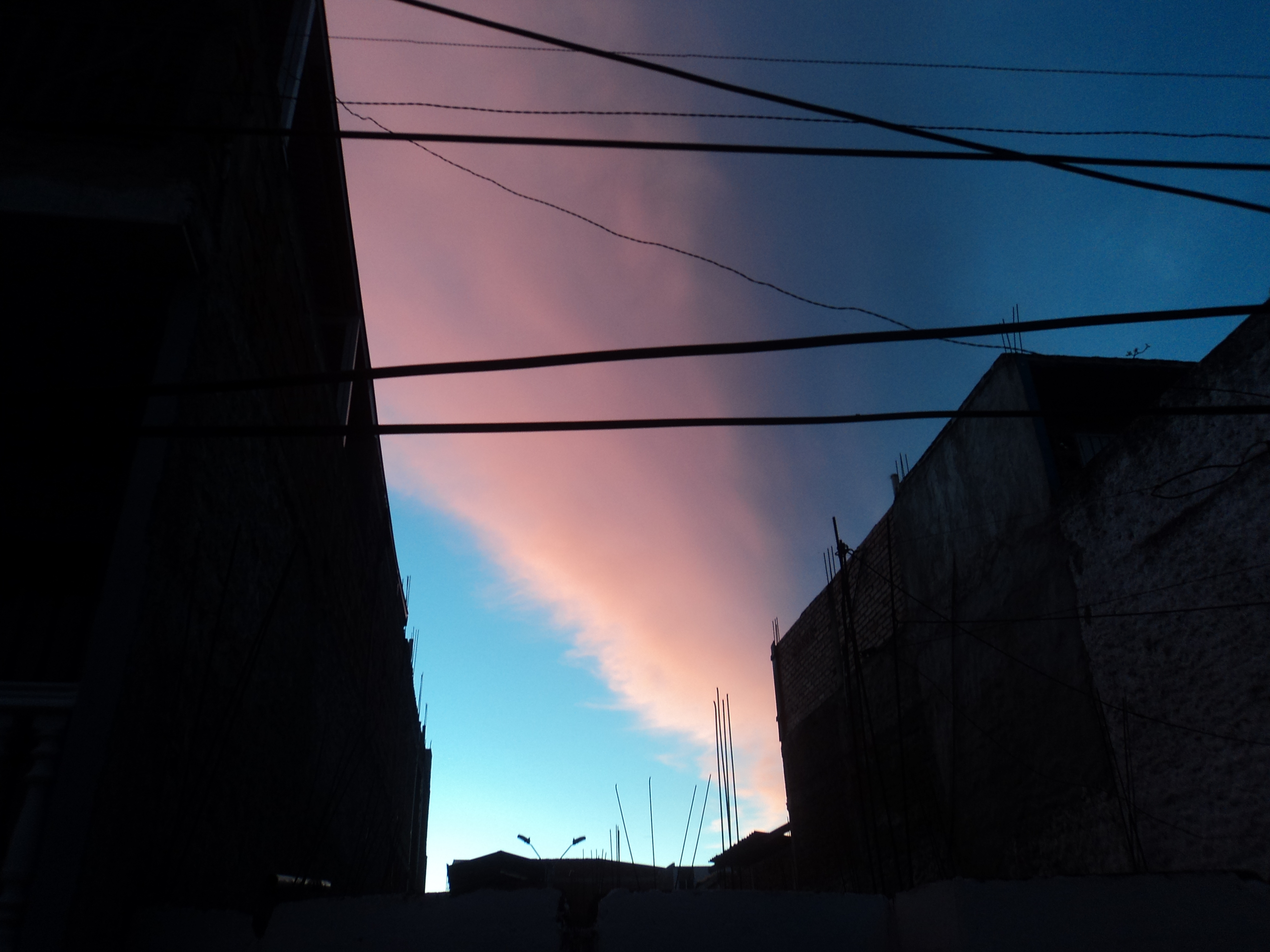 Sky (beautiful with king blue and pink colors)